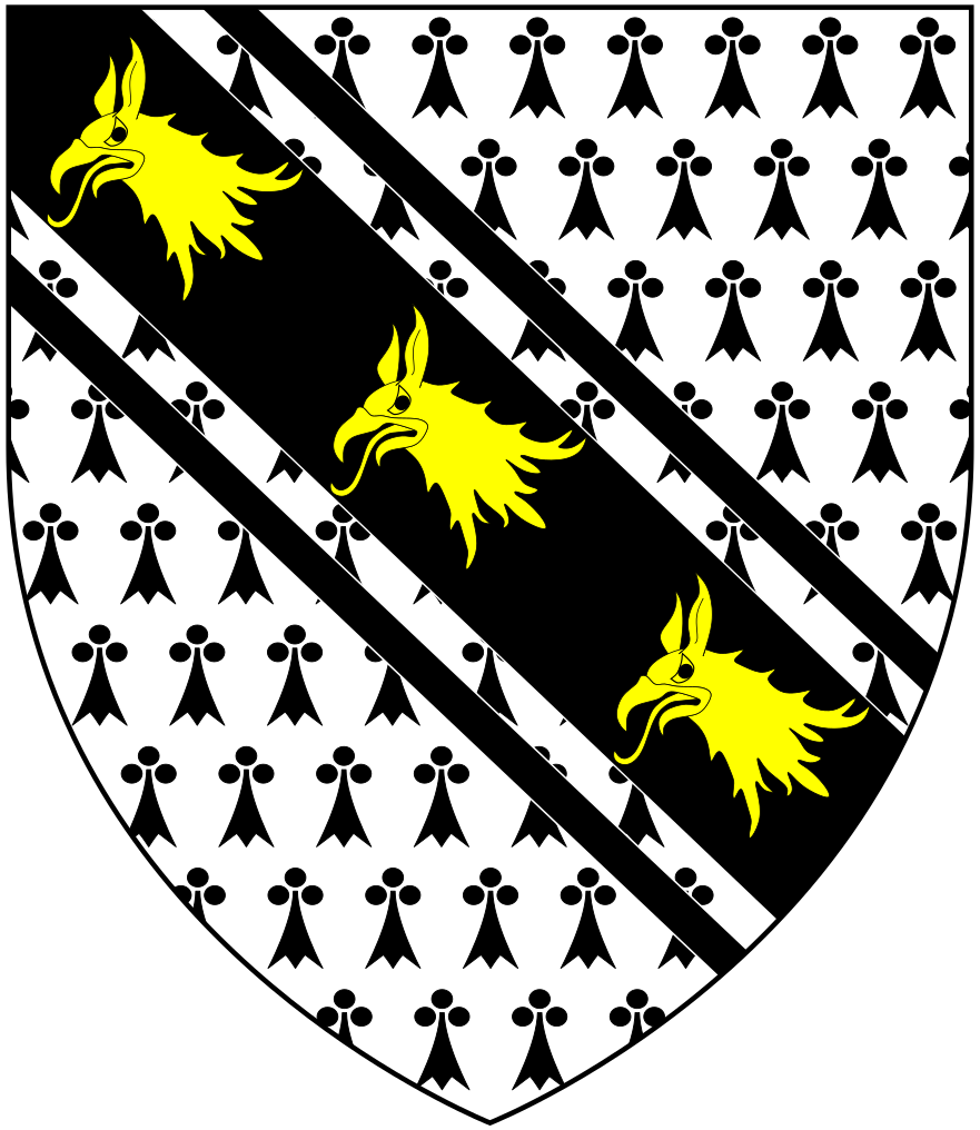 Arms of Yonge of The Great House, South Street,(Pevsner, Nikolaus & Cherry, Bridget, The Buildings of England: Devon, London, 2004, p.281)) Colyton, Devon: Ermine, on a bend cotised sable three griffin's heads erased or (Source: Vivian, Lt.Col. J.L., (Ed.) The Visitation of the County of Devon: Comprising the Heralds' Visitations of 1531, 1564 & 1620, Exeter, 1895, p.840)